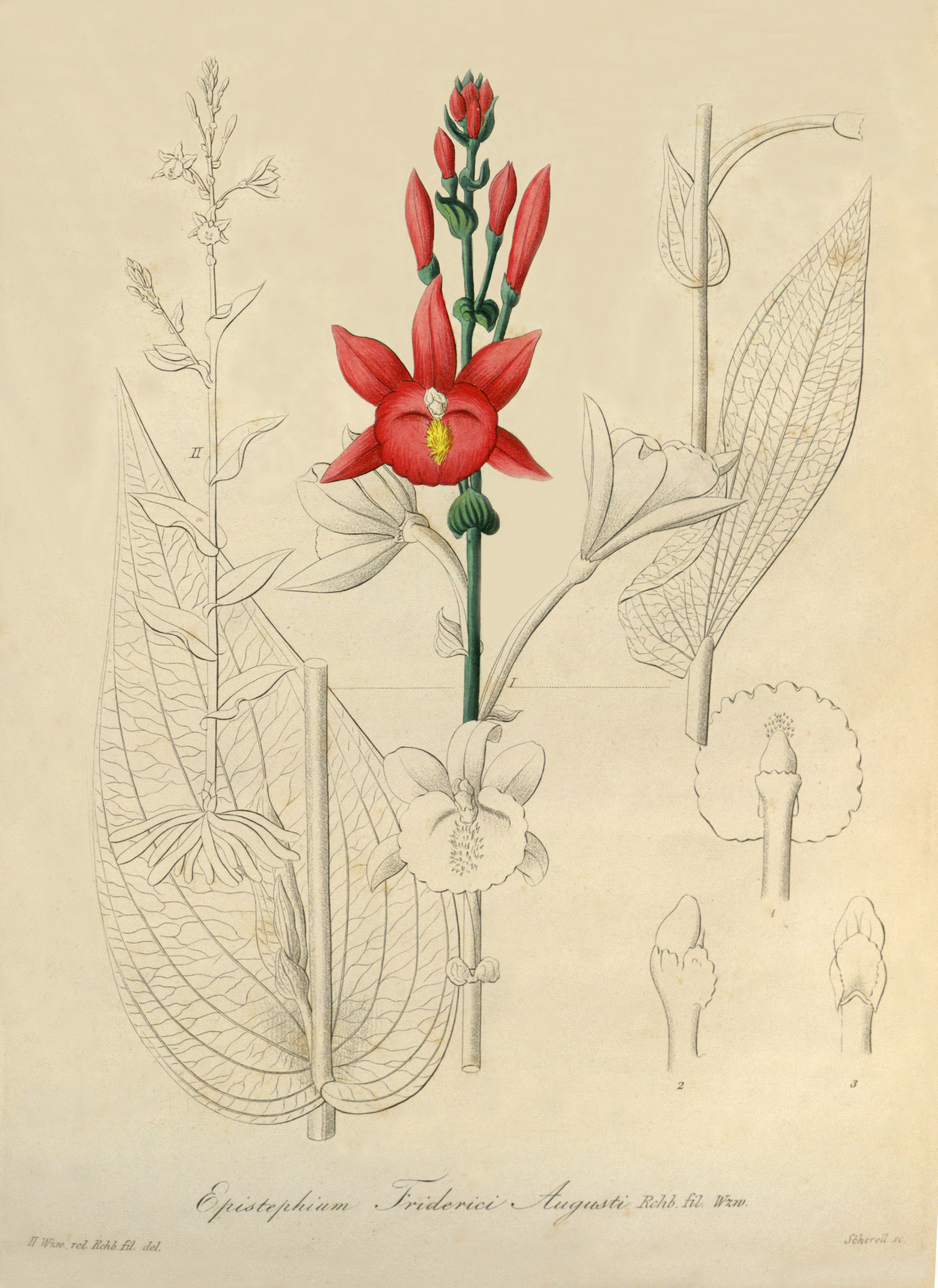 Illustration of Epistephium frederici-augusti